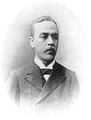 T. Takamatsu, Professor of Applied Chemistry.